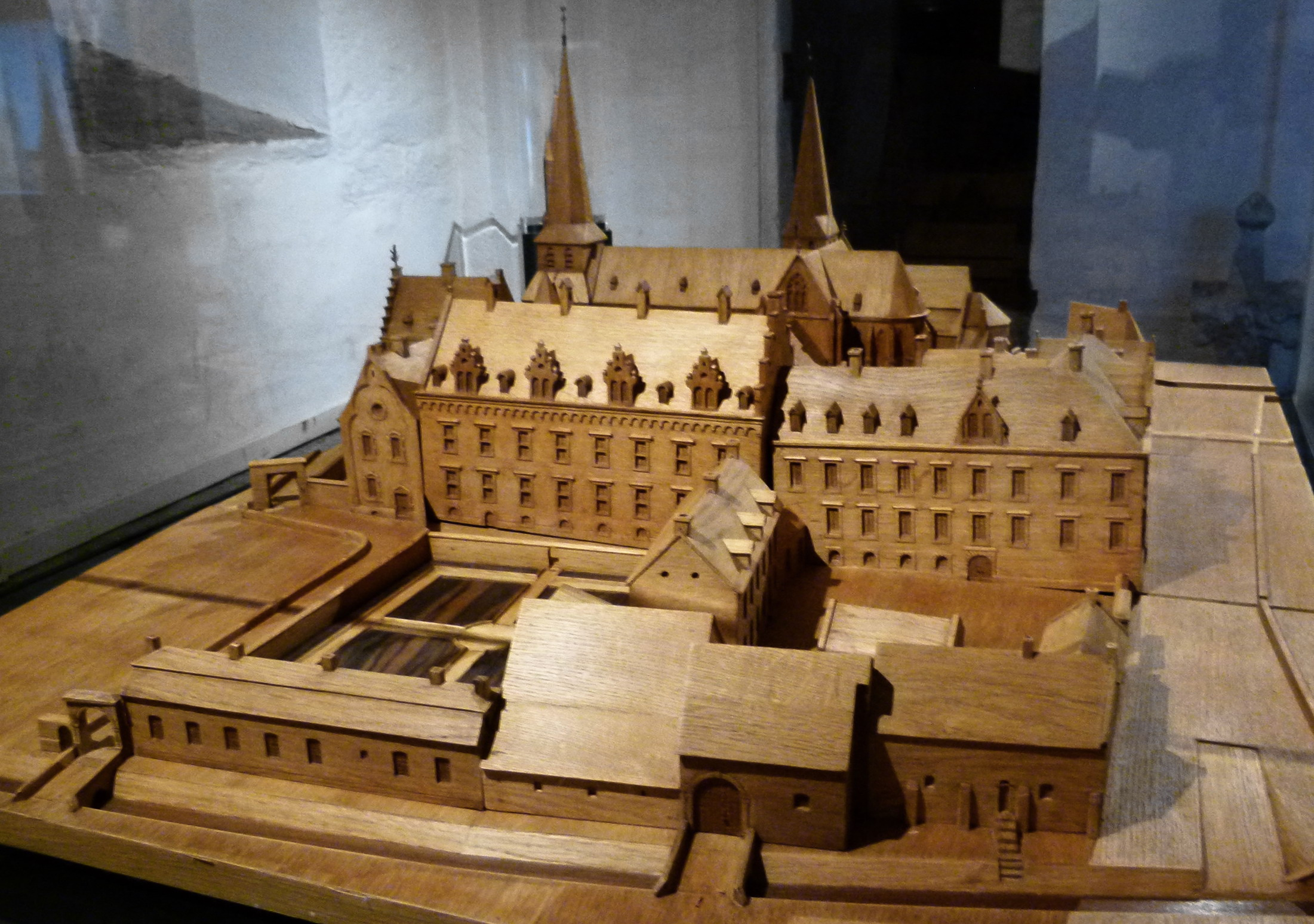 Maquette of Thorn Abbey as it was at the end of the 18th century. The maquette was built by A.H. Moers in 1968 and is on display in the westcrypt of Thorn abbey church.